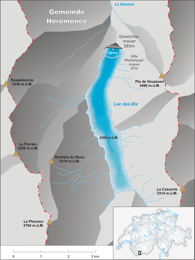 Lake Dix.